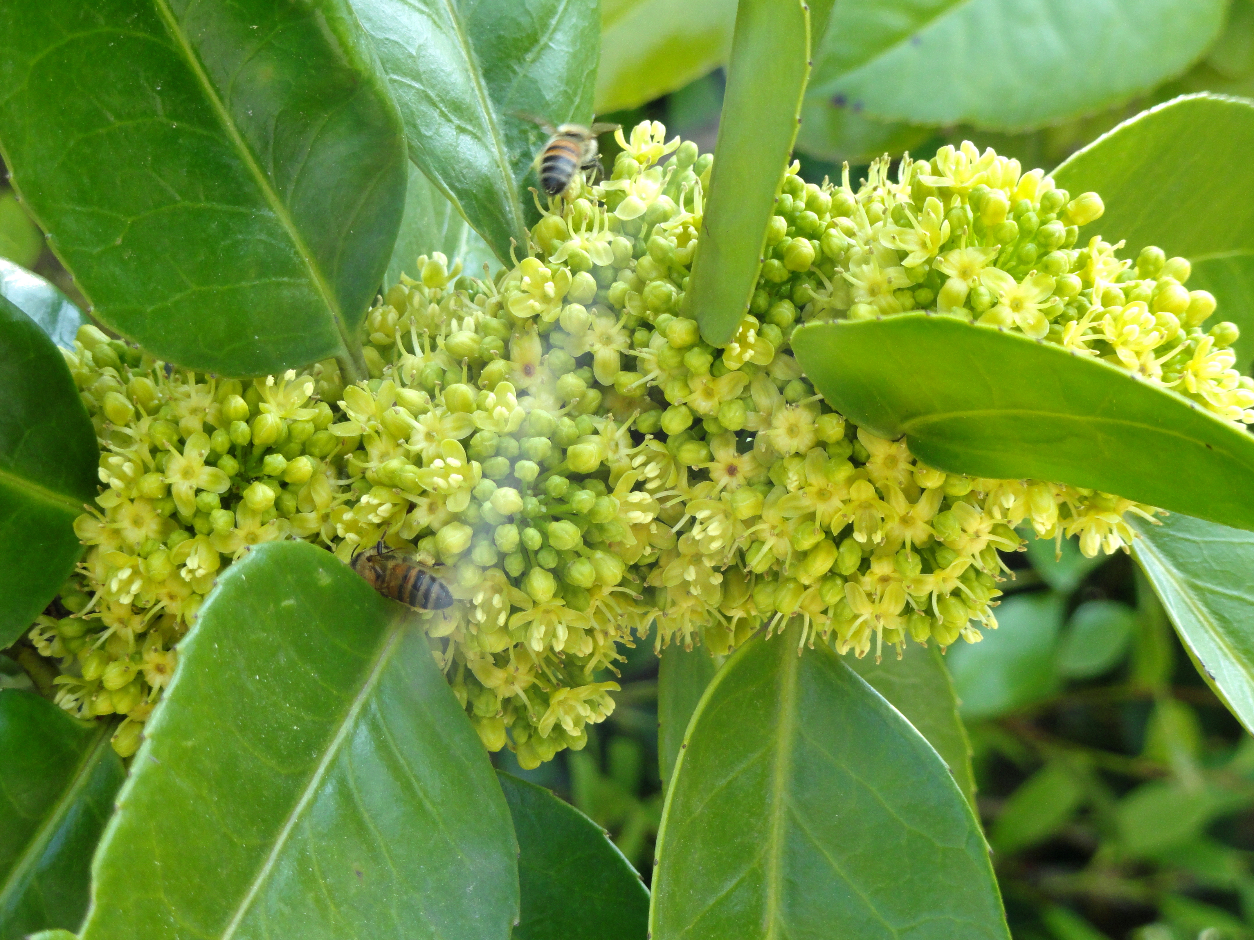 Ilex latifolia. Botanical specimen on the grounds of the Villa Taranto (Verbania), Lake Maggiore, Italy.